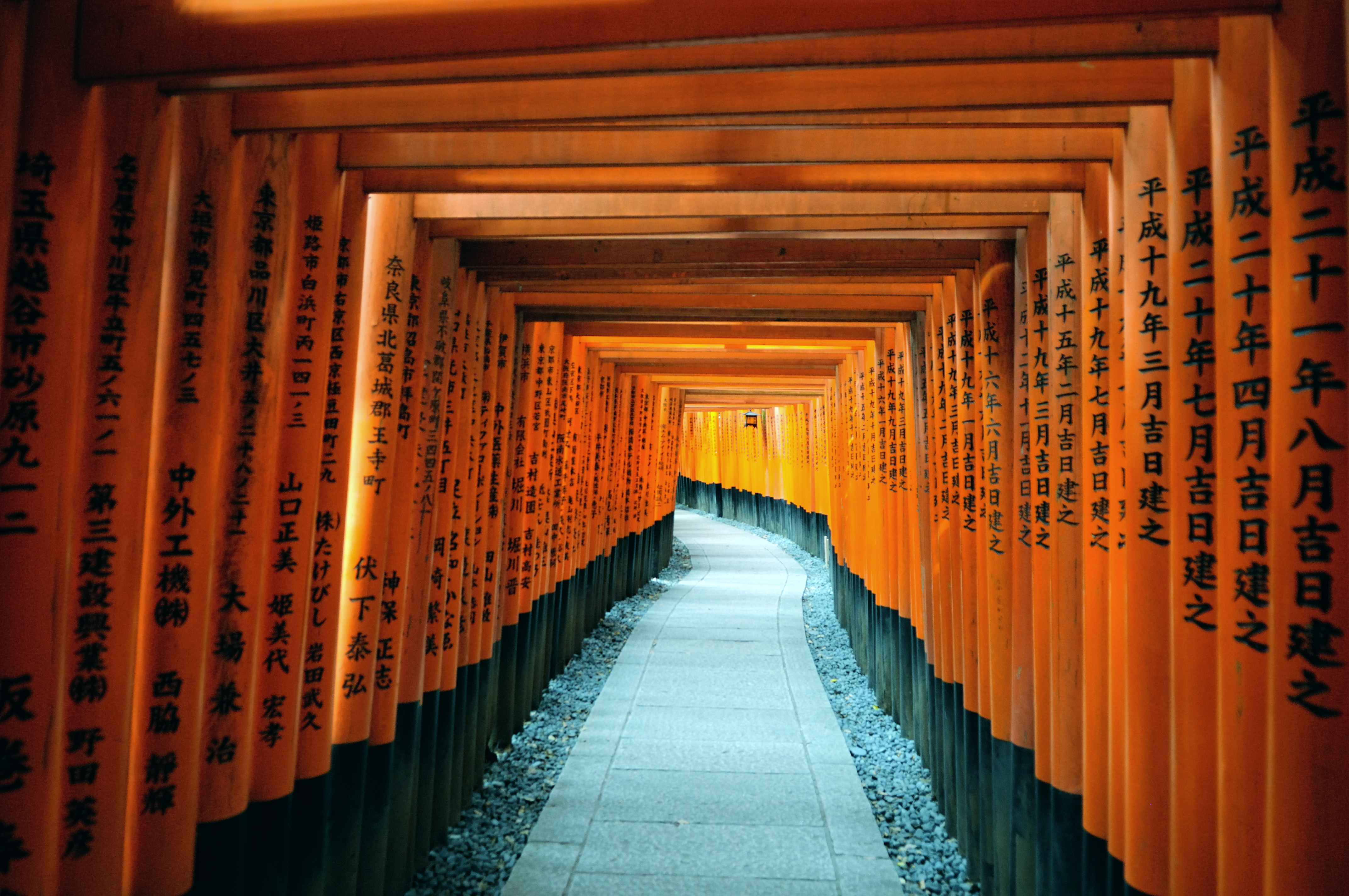 Fushimi Inari Taisha (伏見稲荷大社). The Tori towards the foot of the mountain.